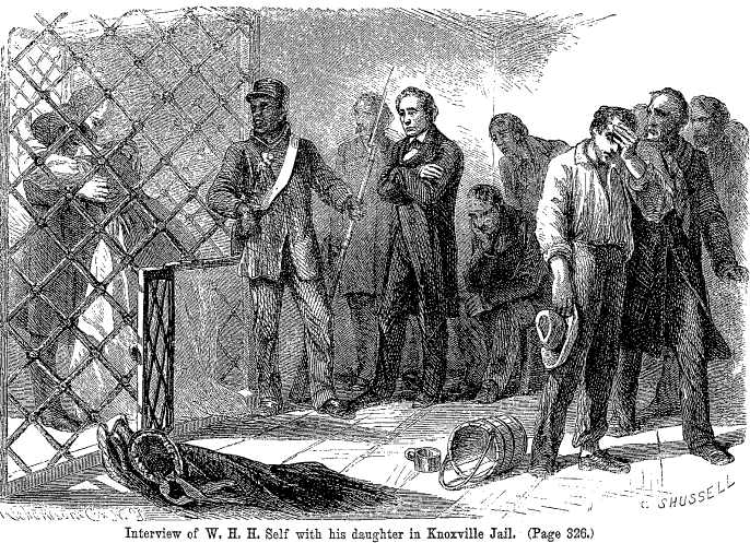 Engraving from William G. Brownlow's Sketches of the Rise, Progress, and Decline of Secession, showing the condemned prisoner Harrison Self bidding farewell to his daughter (left) at the jail in Knoxville, Tennessee, USA, in December 1861. Self, a Union supporter, had been convicted of conspiring to burn railroad bridges in Confederate-occupied East Tennessee at the outbreak of the Civil War. Self was later pardoned by Confederate President Jefferson Davis just hours before his scheduled execution. Parson Brownlow, arms folded, looks on.